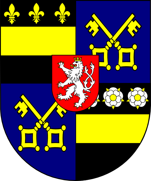 Coat of arms of Strahov Monastery, Prague.